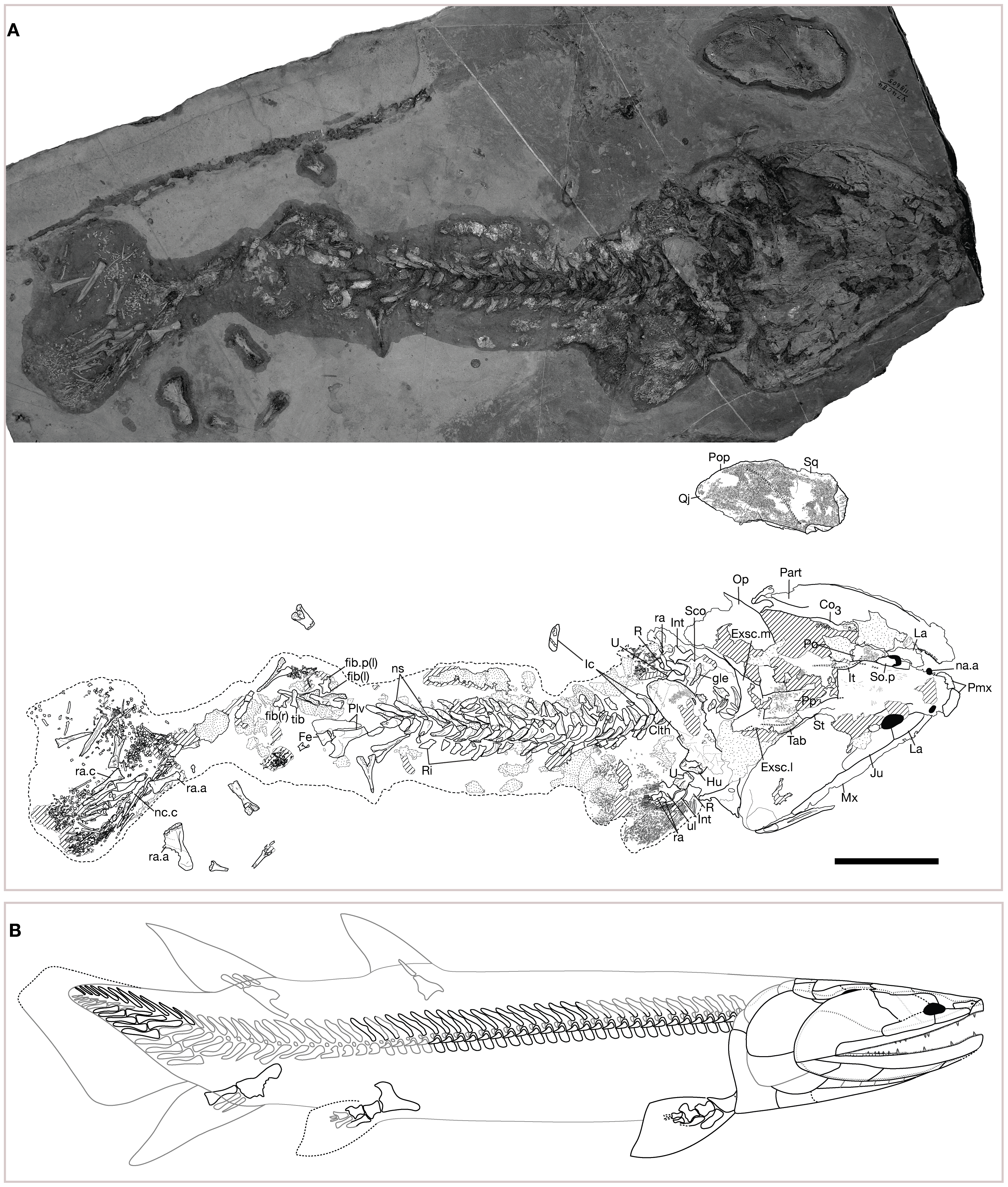 Photograph and interpretive drawing of the holotype skeleton of Tinirau clackae from "A Marine Stem-Tetrapod from the Devonian of Western North America" by Brian Swartz.